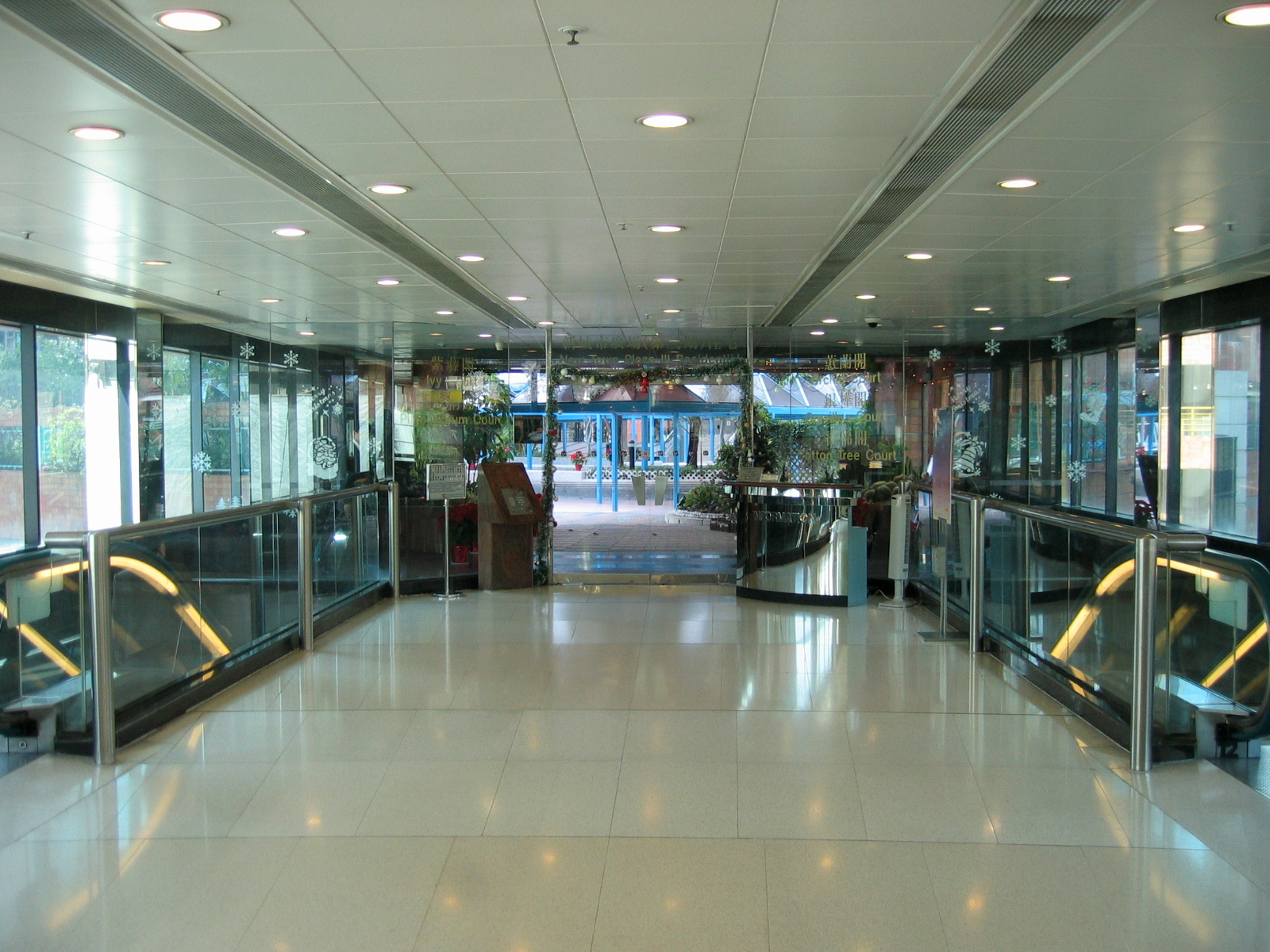 New Town Plaza Phase 3 Enterance